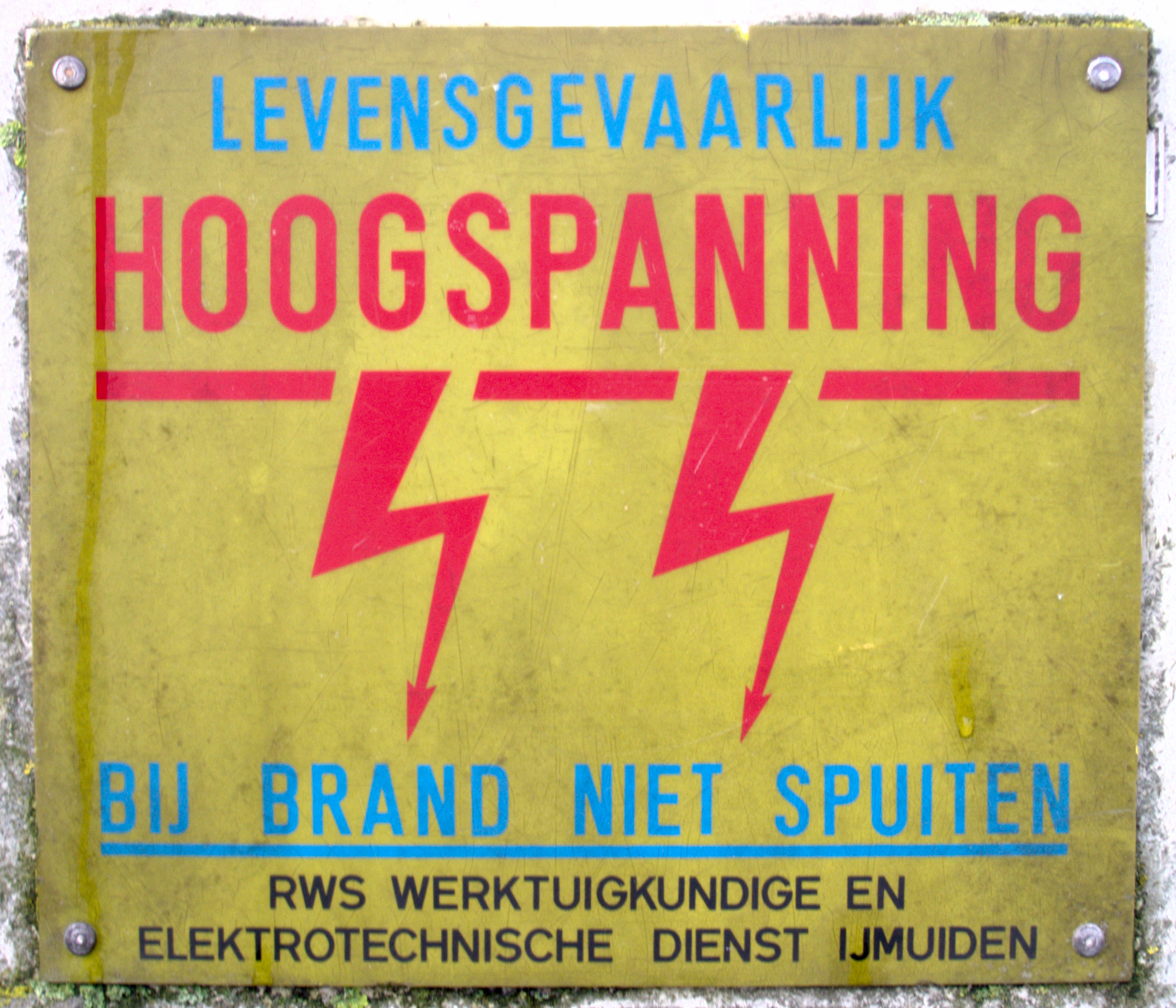 High voltage warning sign in Dutch.